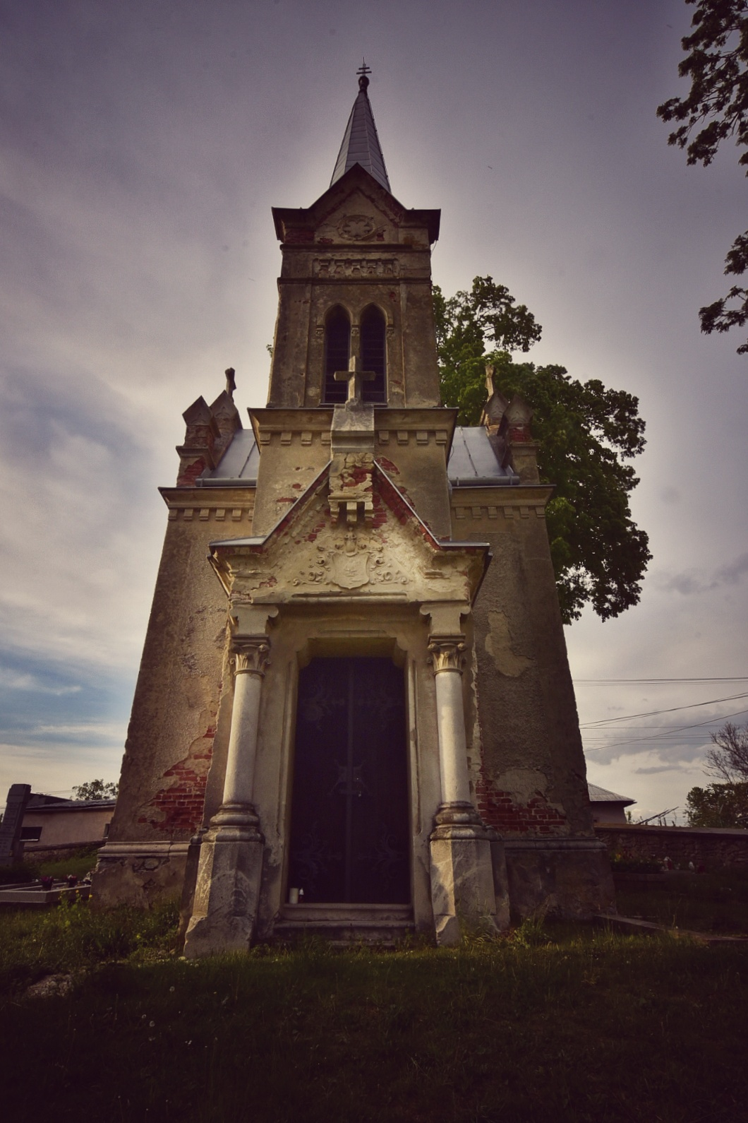 Rakovsky Mausoleum in the cemetery in Rakovo